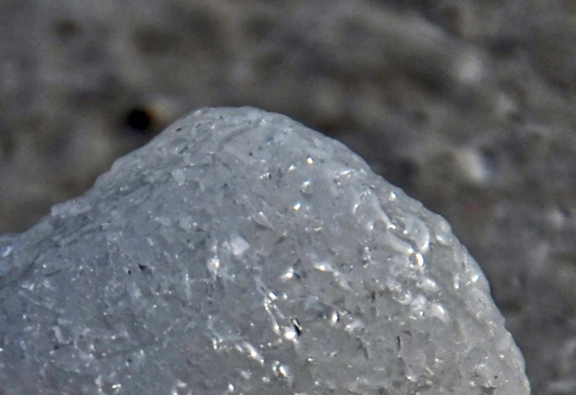 Piece of paradichlorobenzene, used as a moth repellent (carcinogenic chemical)